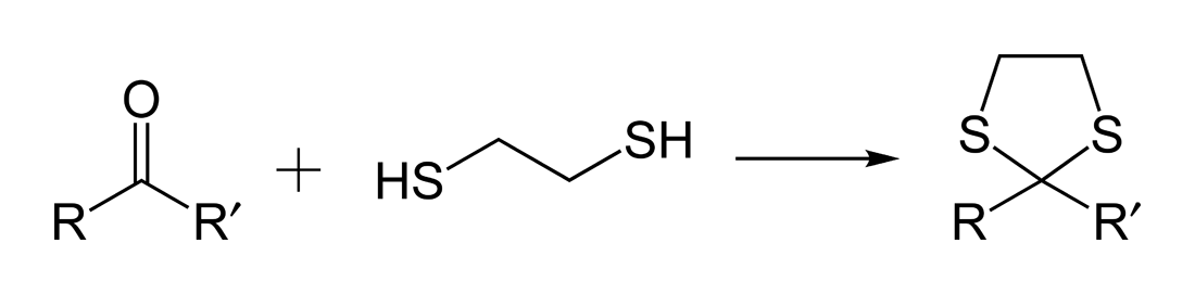 Reaction scheme showing the protection of a carbonyl group by reaction with 1,2-ethanedithiol to form a 1,3-dithiolane